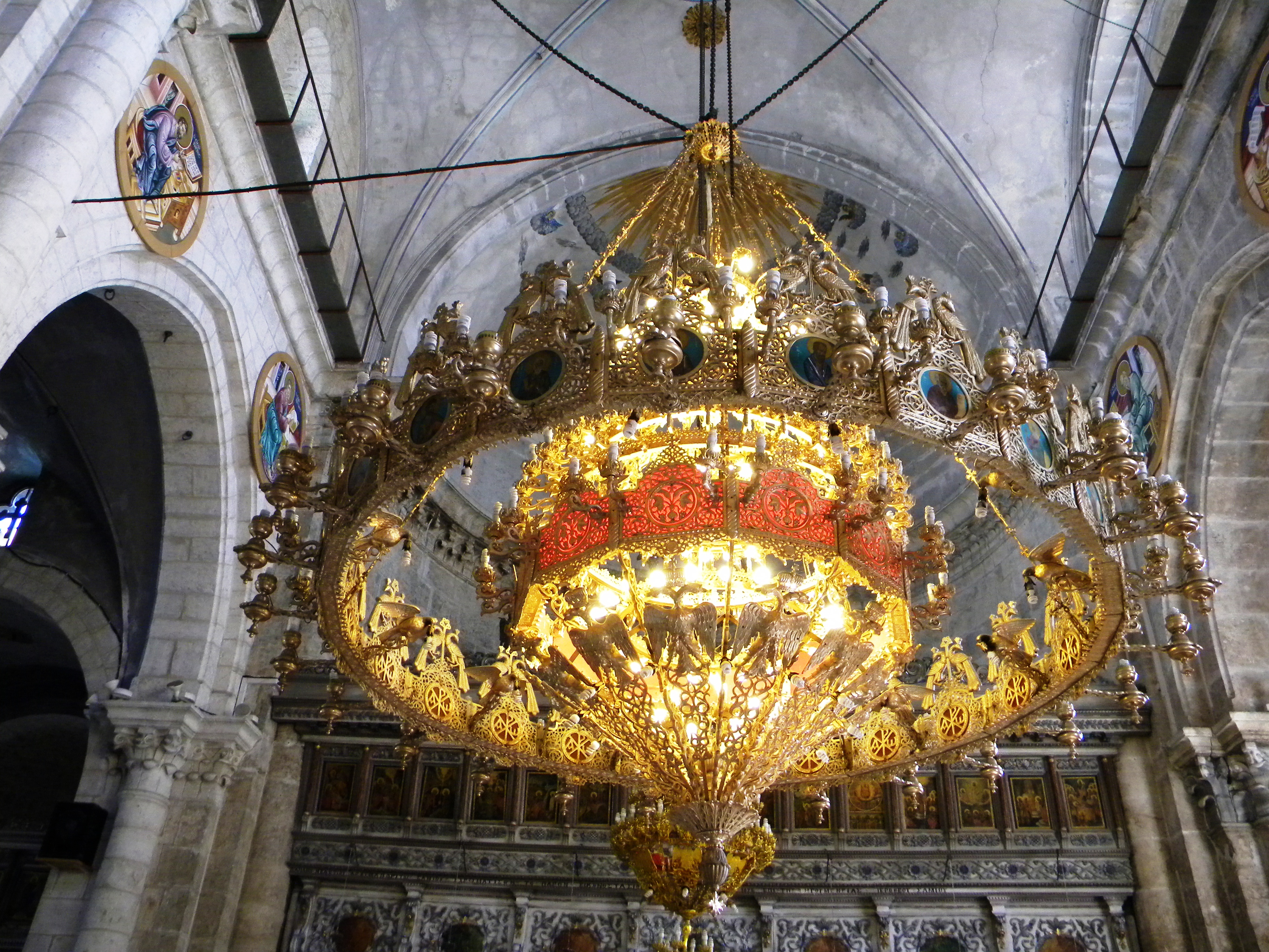 ISRAEL - Lidda (Lod) - GREEK ORTHODOX MONASTERY OF ST. GEORGE, LOD - (interior - plaphon 2) (ID is 9-7000-004)